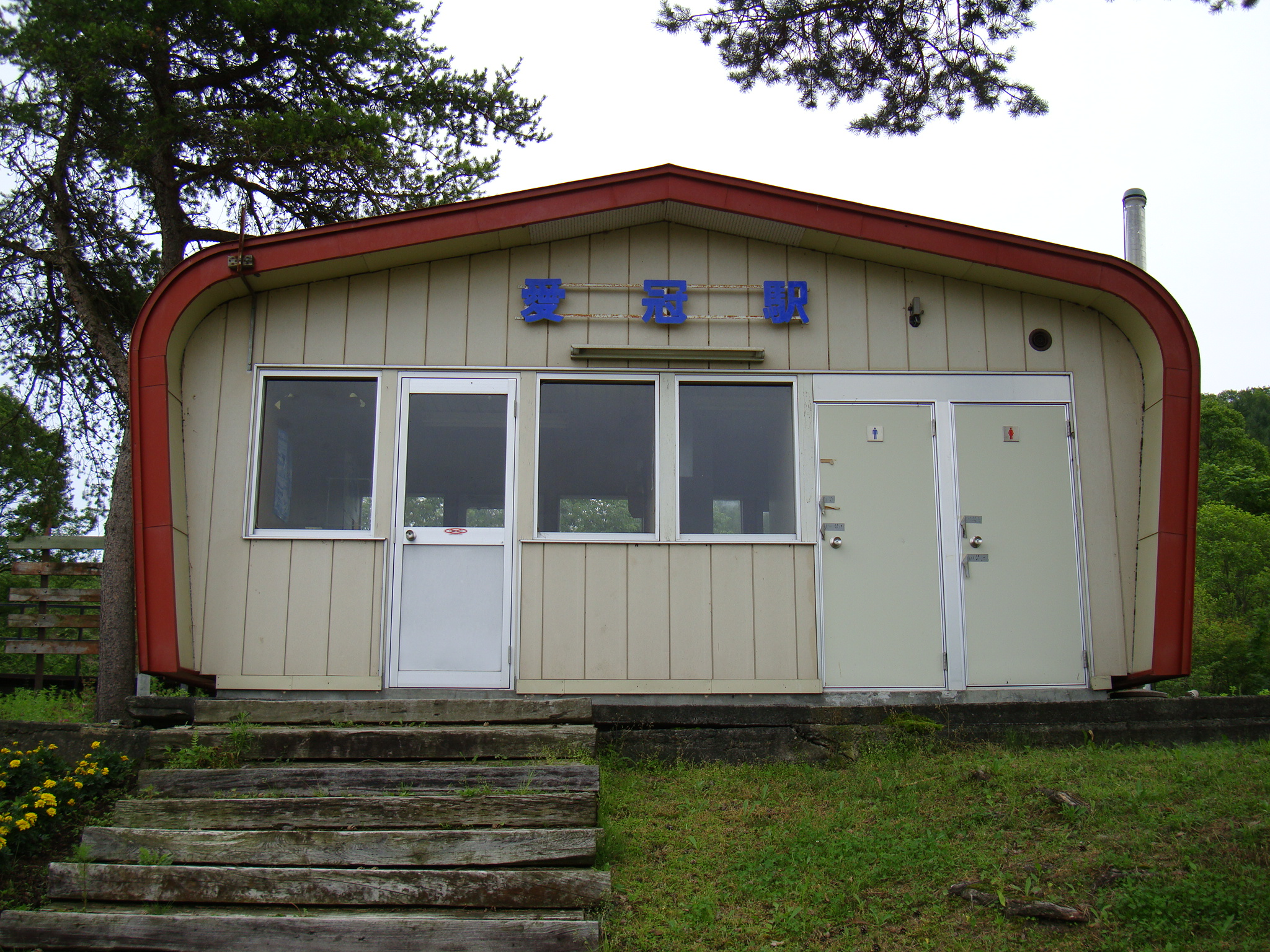 Aikappu Station on Hokkaidō Chihokukōgen Railway Furusato Ginga Line